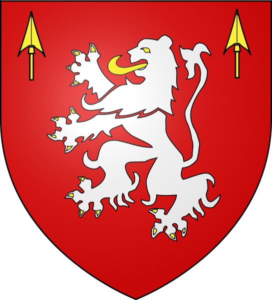 Arms of MacNamara.